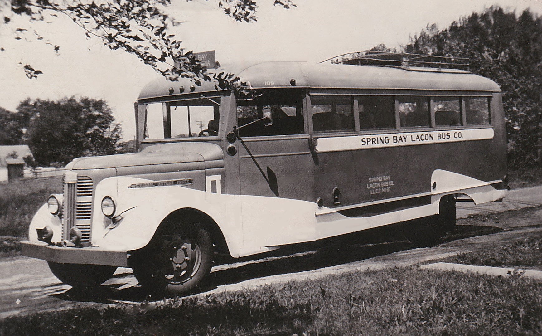 First bus, #109, owned by the Spring Bay Lacon Bus Co. (which became Peoria Charter Coach Company). The destination sign says "Spring Bay" and possibly "East Peoria" or "Lacon - Peoria".